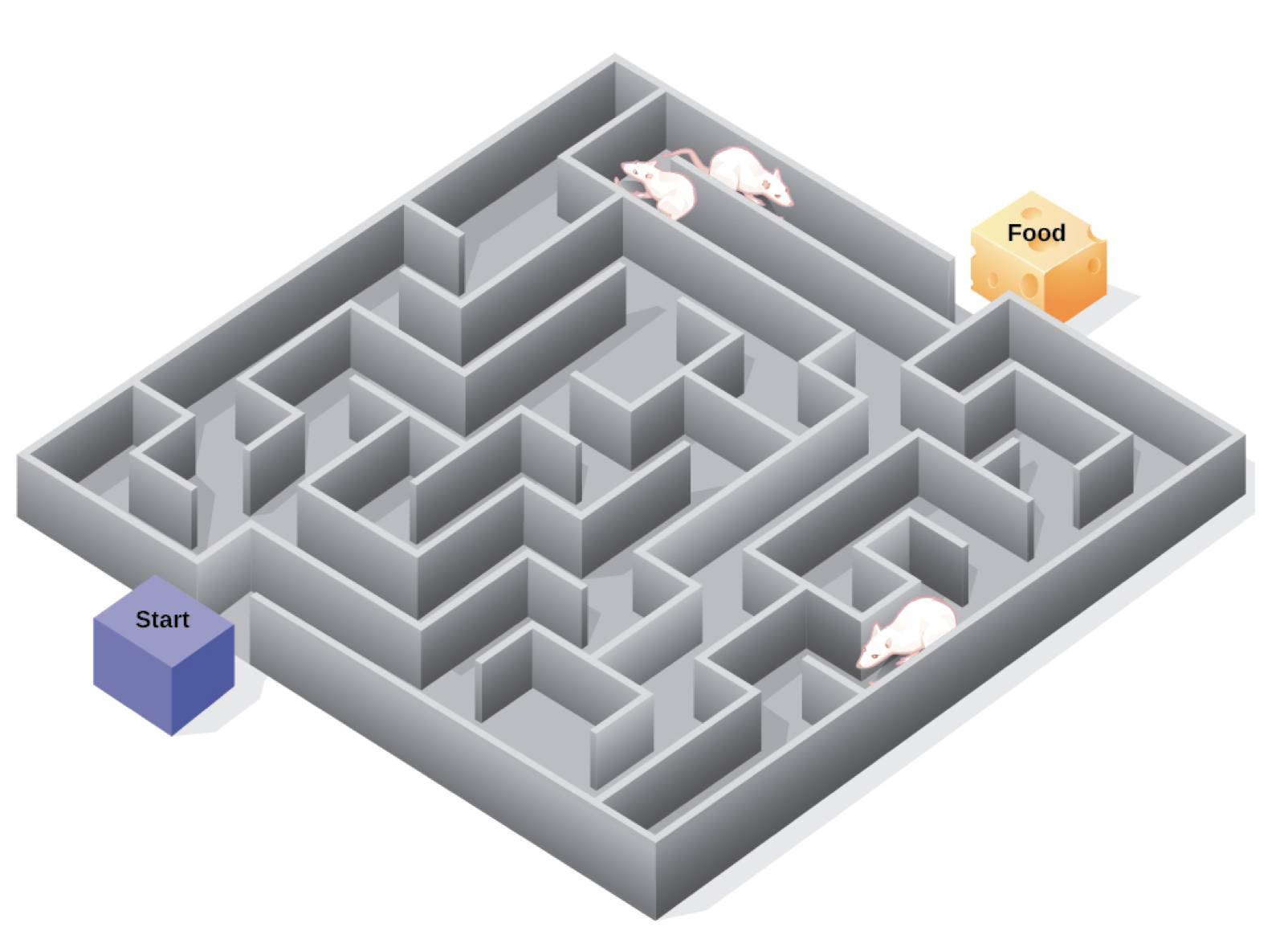 Original caption from the book: Figure 6.15 Psychologist Edward Tolman found that rats use cognitive maps to navigate through a maze. Have you ever worked your way through various levels on a video game? You learned when to turn left or right, move up or down. In that case you were relying on a cognitive map, just like the rats in a maze. (credit: modification of work by "FutUndBeidl"/Flickr)